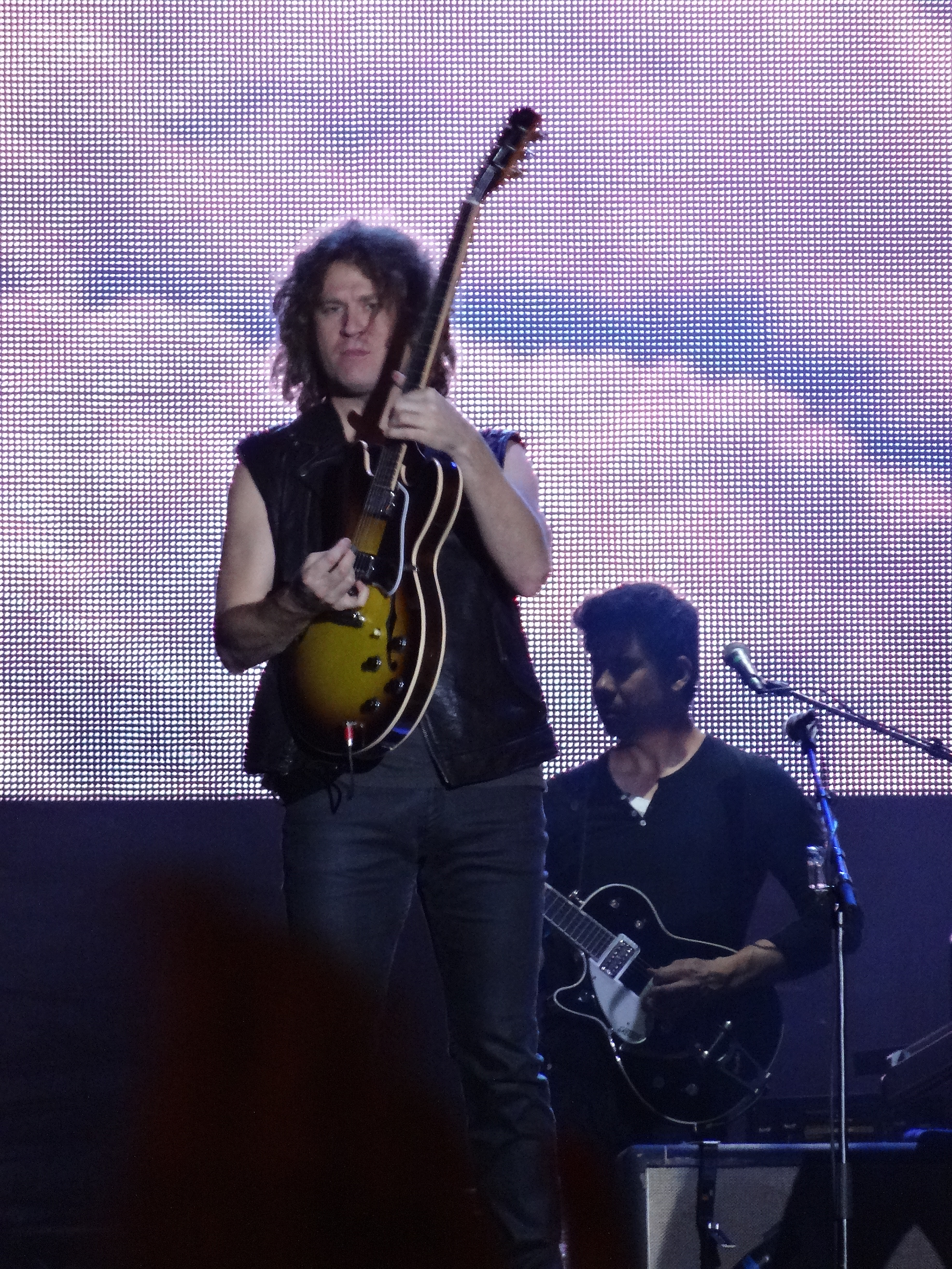 Dave Keuning @ Park Live Festival, VVC (All-Russia Exhibition Centre), Moscow, 29.06.2013